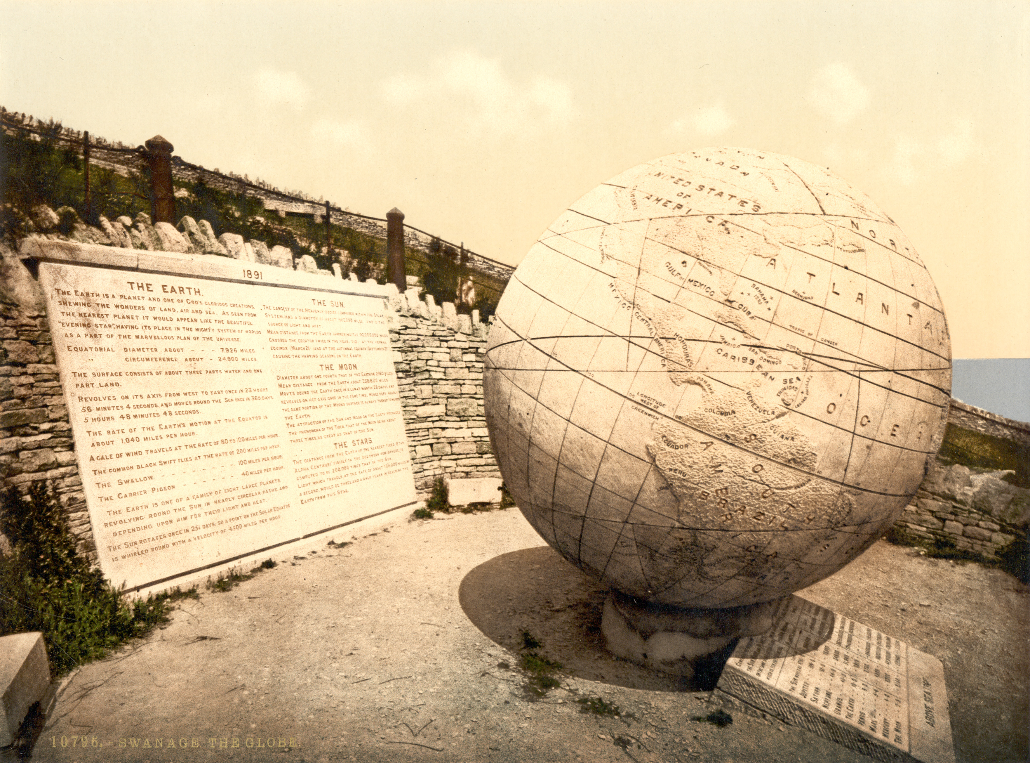 Swanage Globe, Dorset